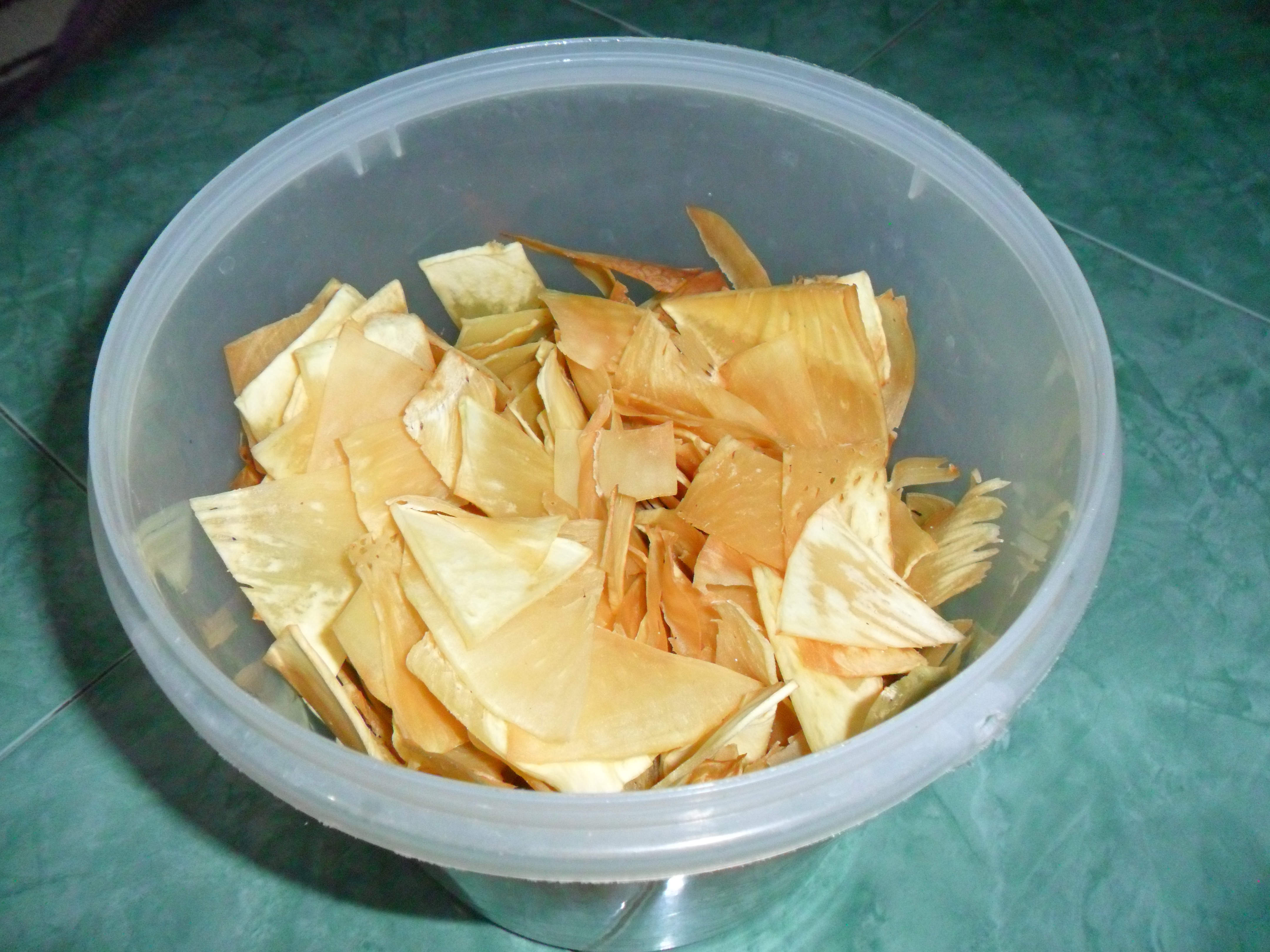 Breadfruit chips Jawa: ꦏꦿꦶꦥꦶꦏ꧀ꦱꦸꦏꦸꦤ꧀